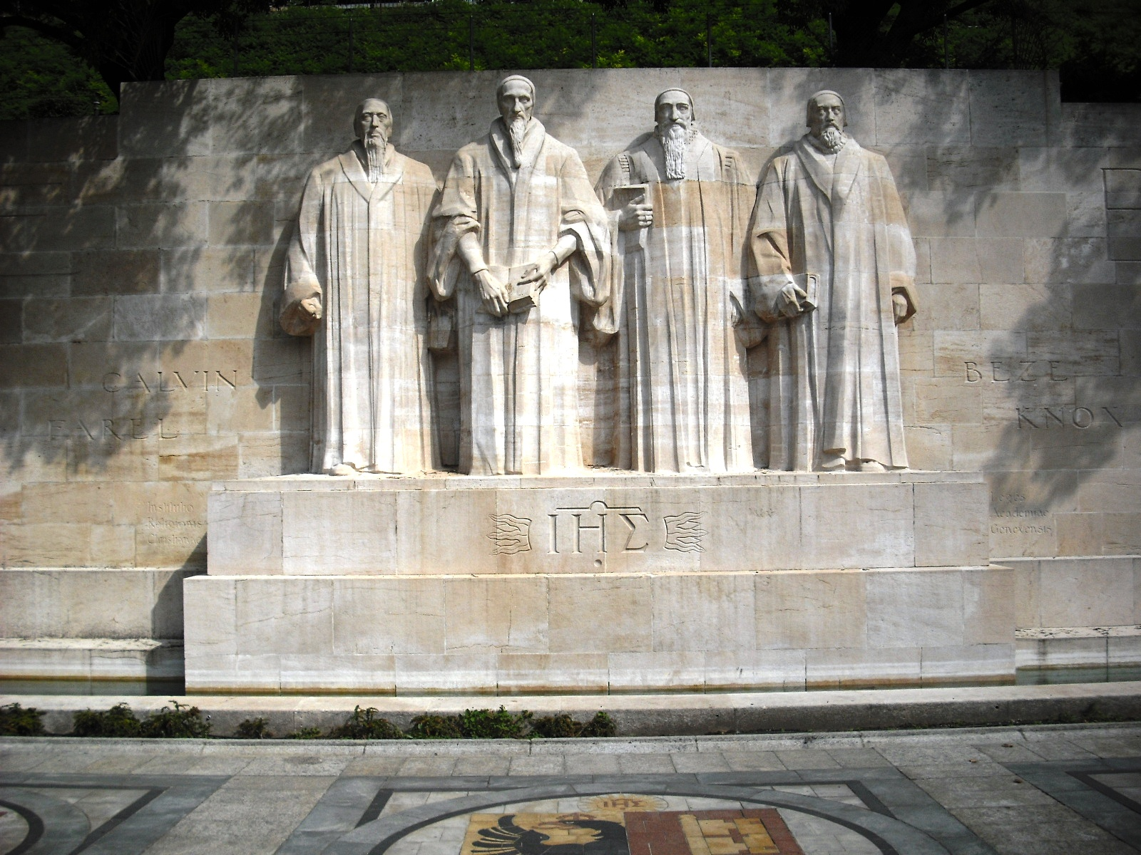 Reformation Wall in Geneva, Switzerland. From left to right: Guillaume Farel, Johannes Calvin, Théodore de Bèze, John Knox